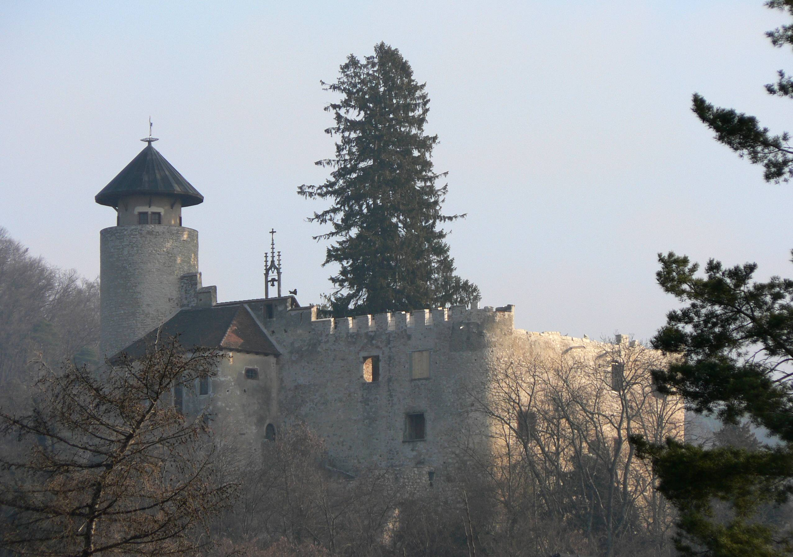 Photograph of Castle Birseck near Arlesheim(BL), Switzerland